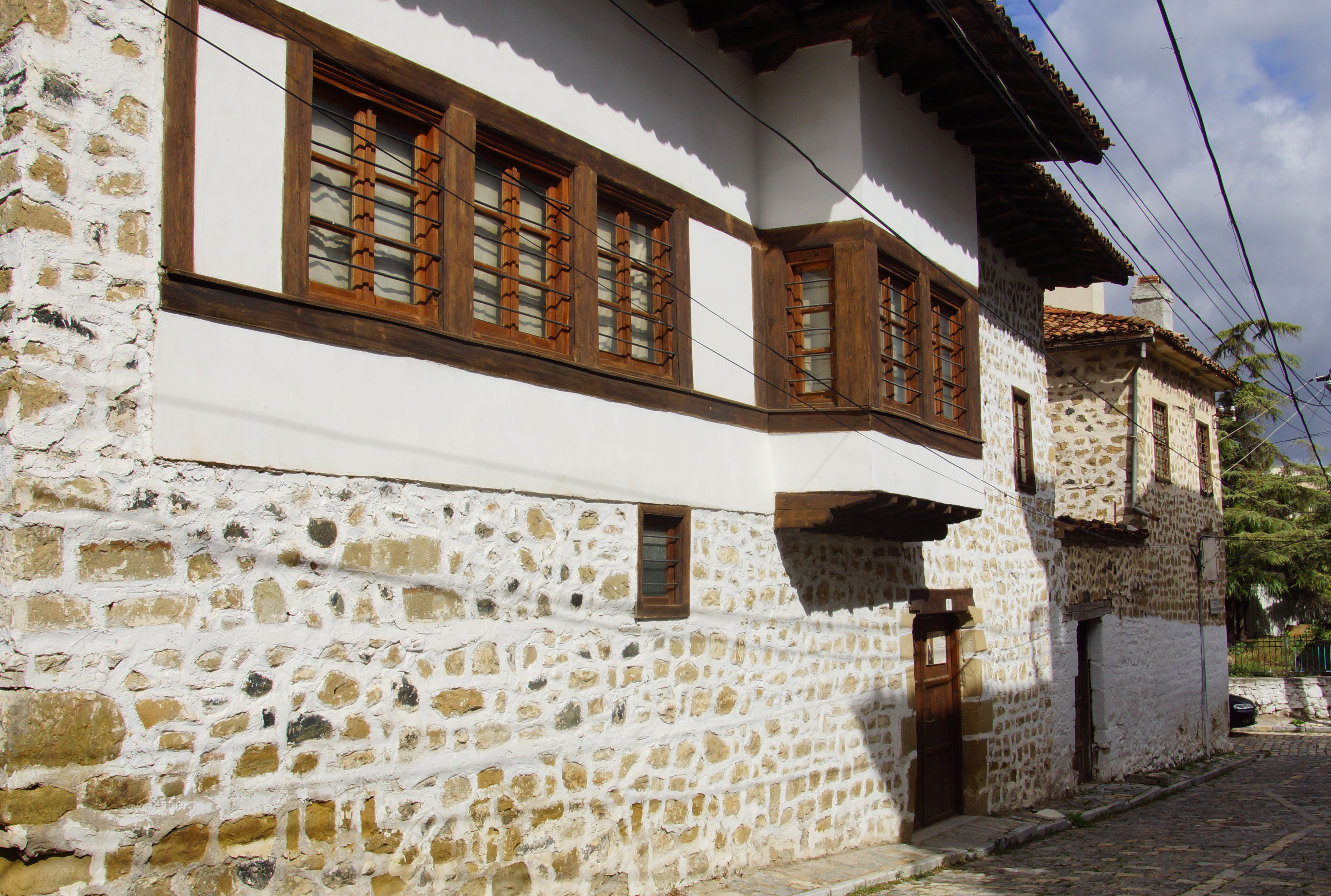 Photo realized during the expedition around Albania for the project The Albanian House